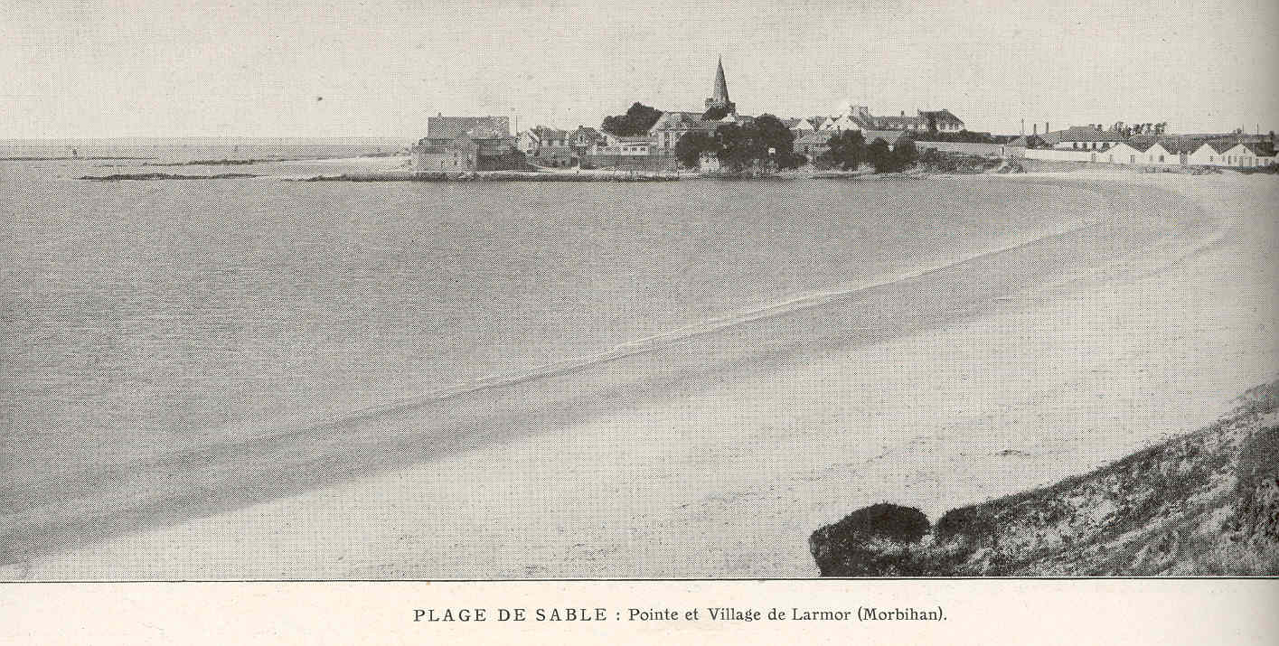 Subject: Morbihan (France), Beaches--France Geographic Subject: France--Morbihan Tag: Coasts